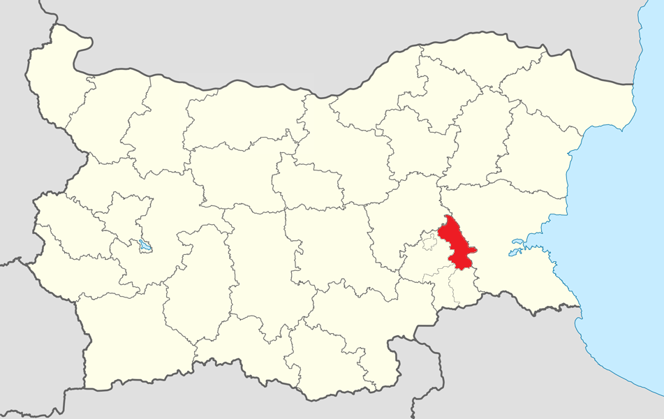 Location map of Straldzha Municipality within Bulgaria and Yambol Province